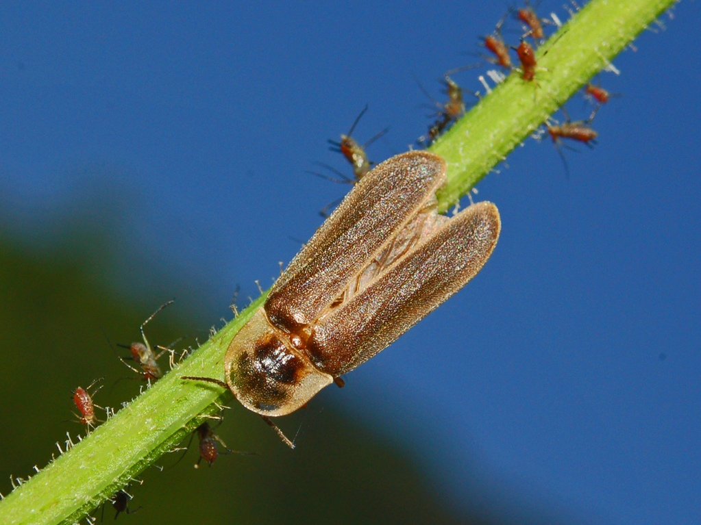 Lampyris noctiluca, male